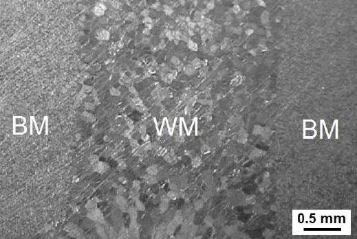 Microstructure of welded joint of annealed AISI 430 sheet. BM is the base metal, WM is the weld metal. The joint was made by automatic GTAW.